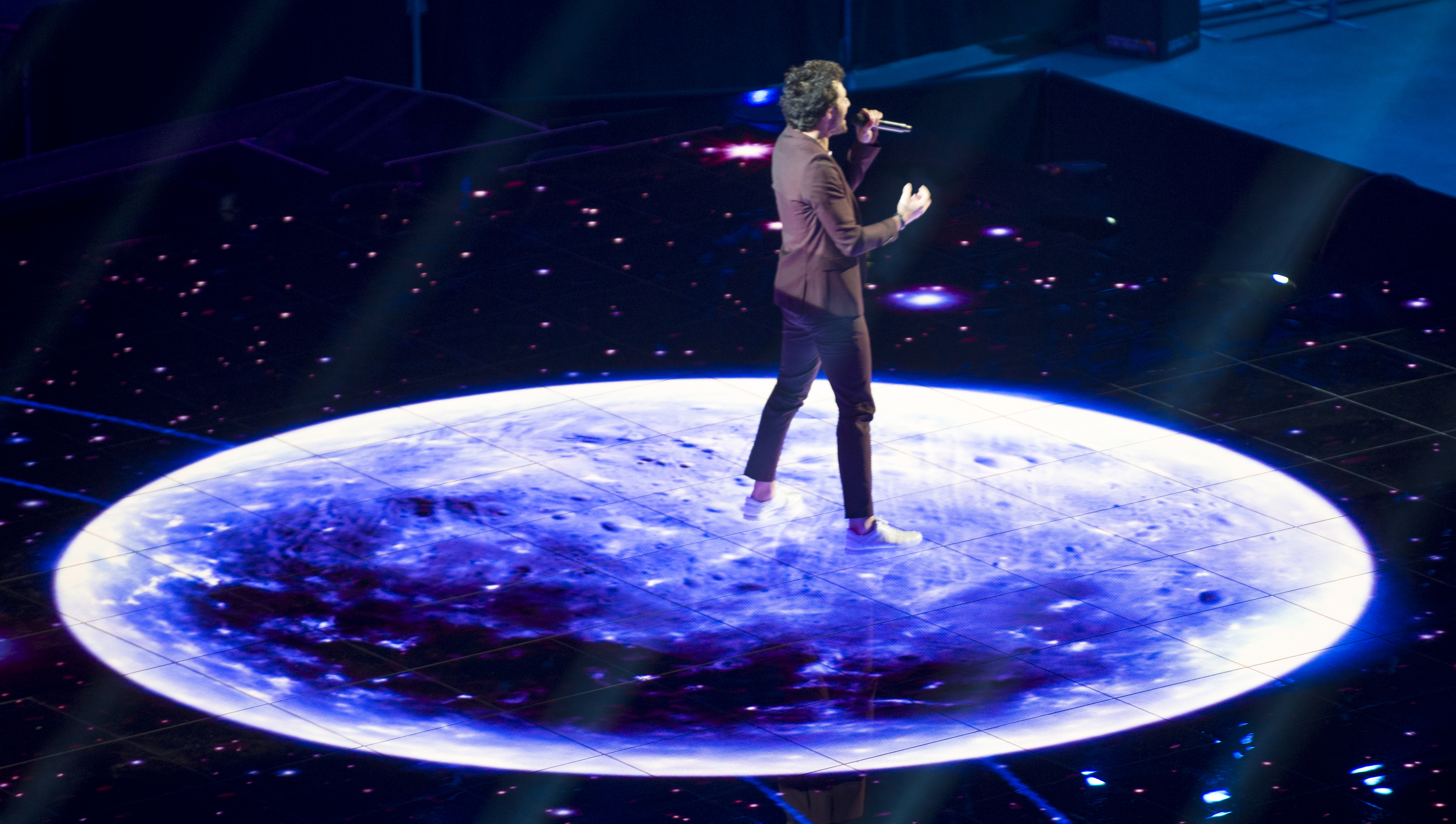 Amir representing France with the song "J'ai cherché" during a rehearsal for "the Big Five" in the Eurovision Song Contest 2016 in Stockholm. (Help translate this text)